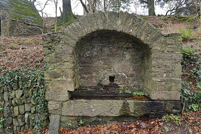 St Julian's Well, Maker-with Rame, Cornwall. A grade II* listed building.